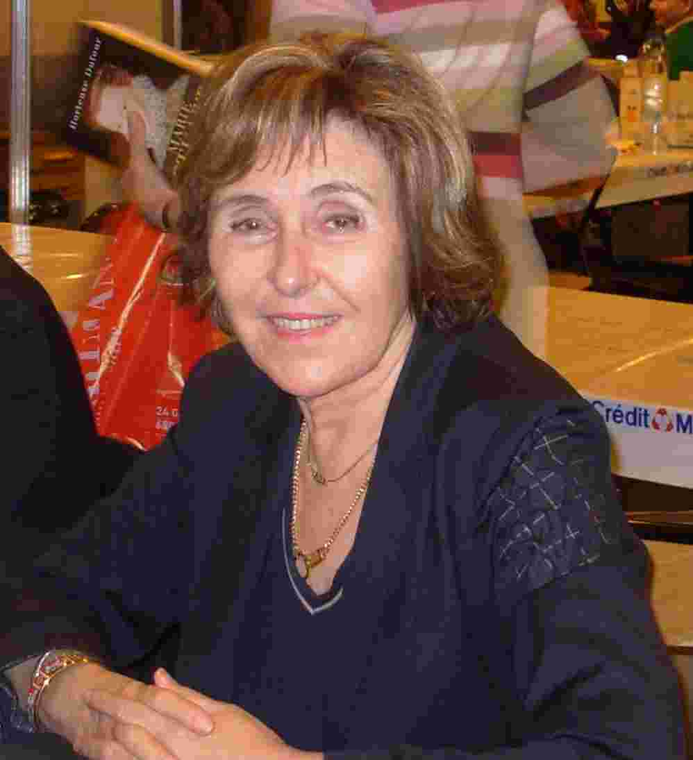 Edith Cresson, prime minister of France